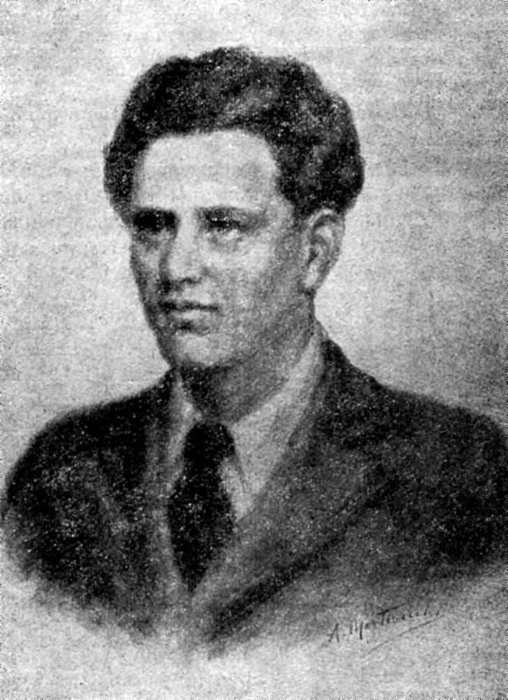 Image of the anarchist Gino Lucetti